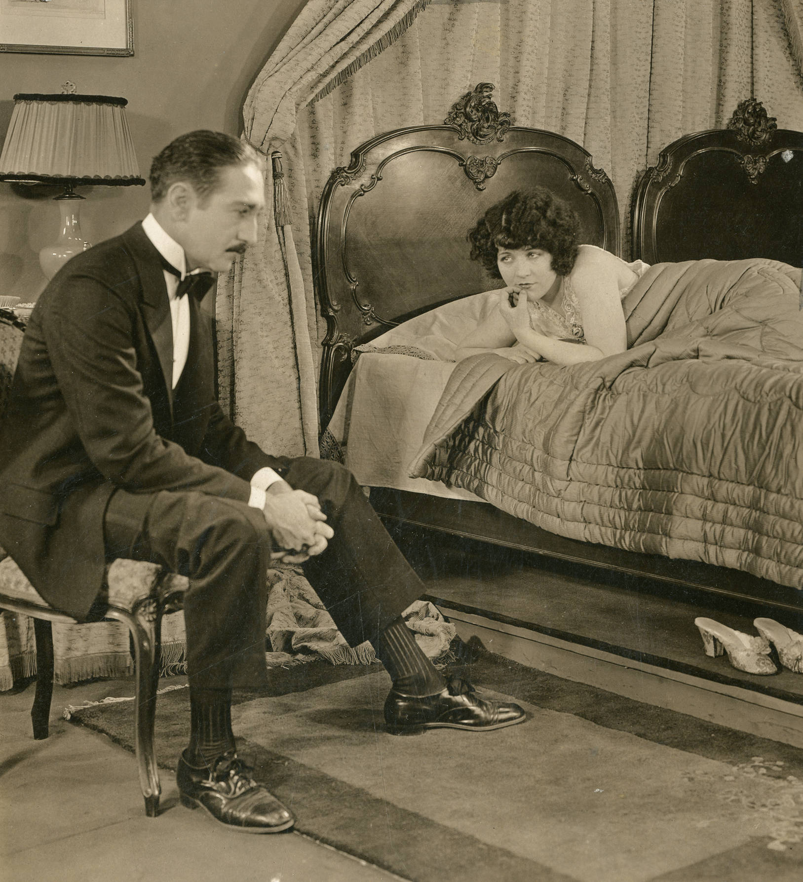 Still from the film The Marriage Circle (1924) with Adolphe Menjou and Marie Prevost Subjects: motion pictures, actors